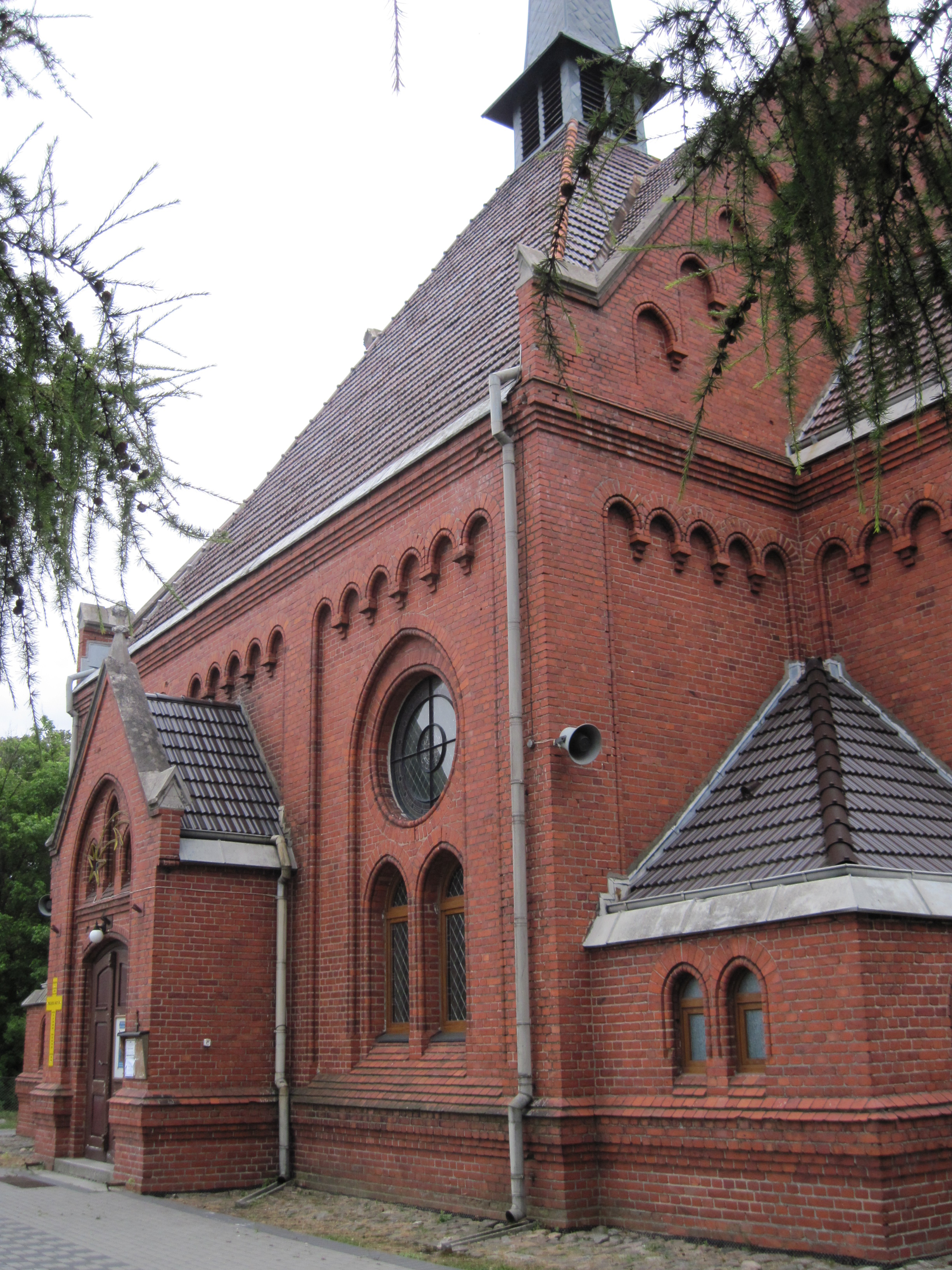 The church of bl. Michal Kozal in Gniezno (Poland)